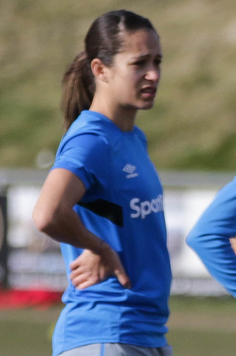 Lewes FC Women 0 Everton Ladies 6 FAC 6th Rd 18 02 2018-42.jpg